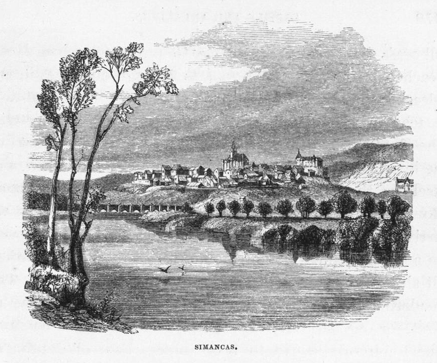 Simancas.